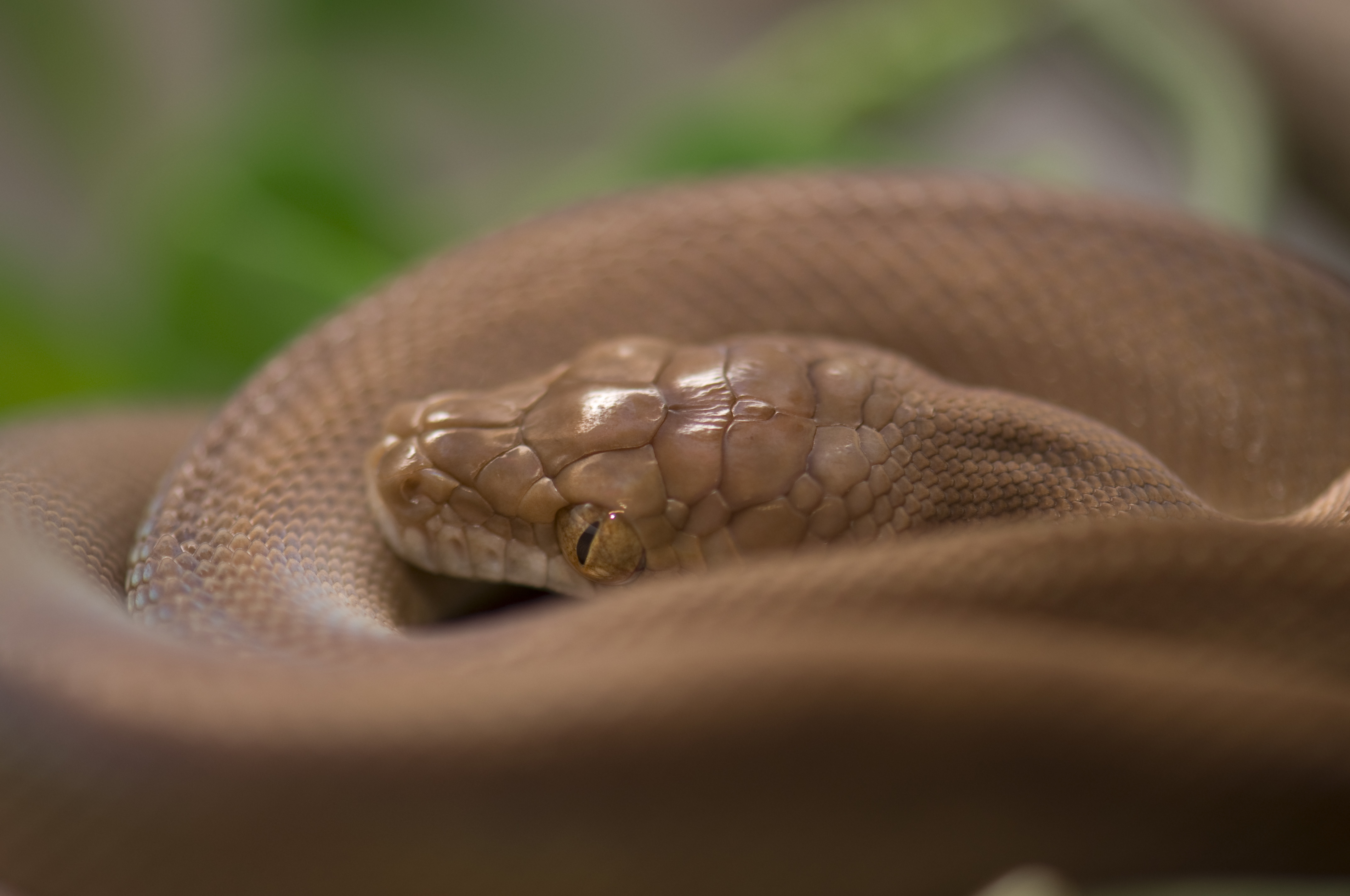 A morelia nauta tanimbar python juvenile